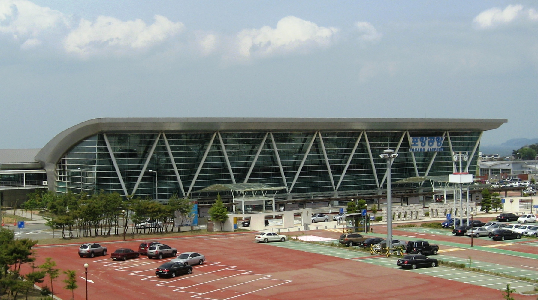 Pohang Airport Passenger Terminal